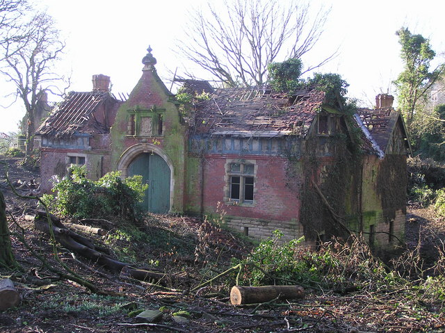 Stables, High Coniscliffe.